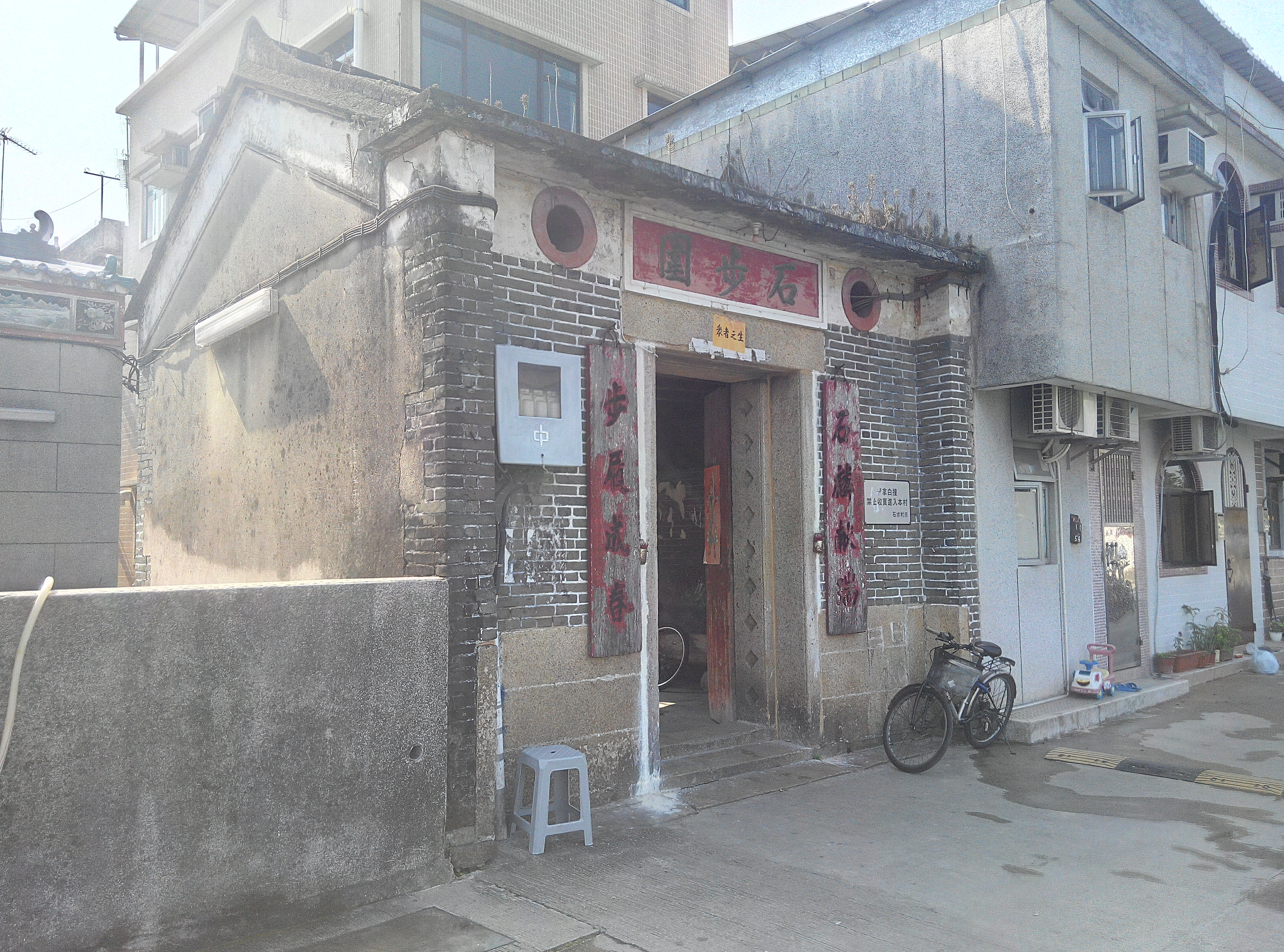 EntranceGate of Shek Po Wai